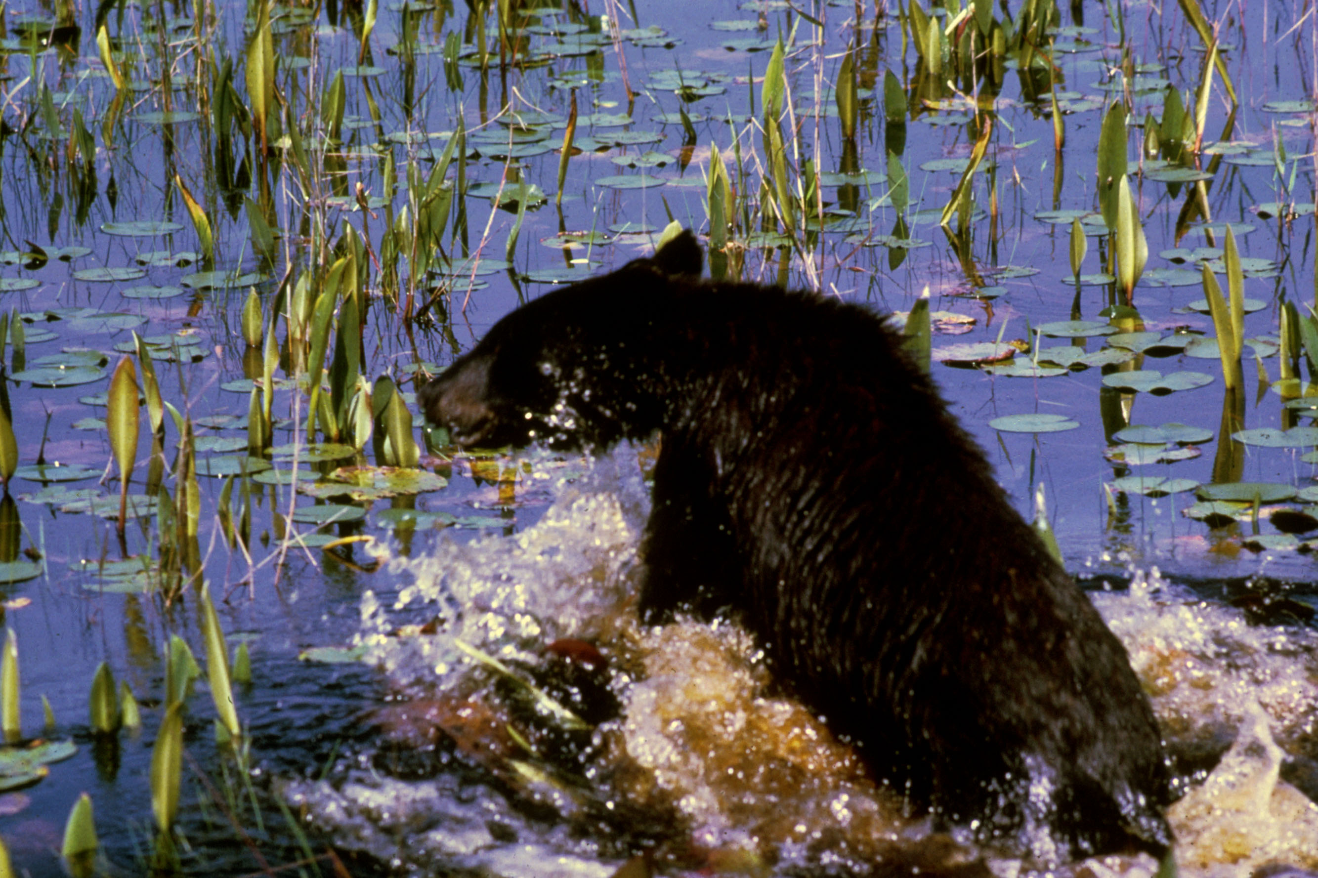 Black Bear Cub (Ursus americanus)